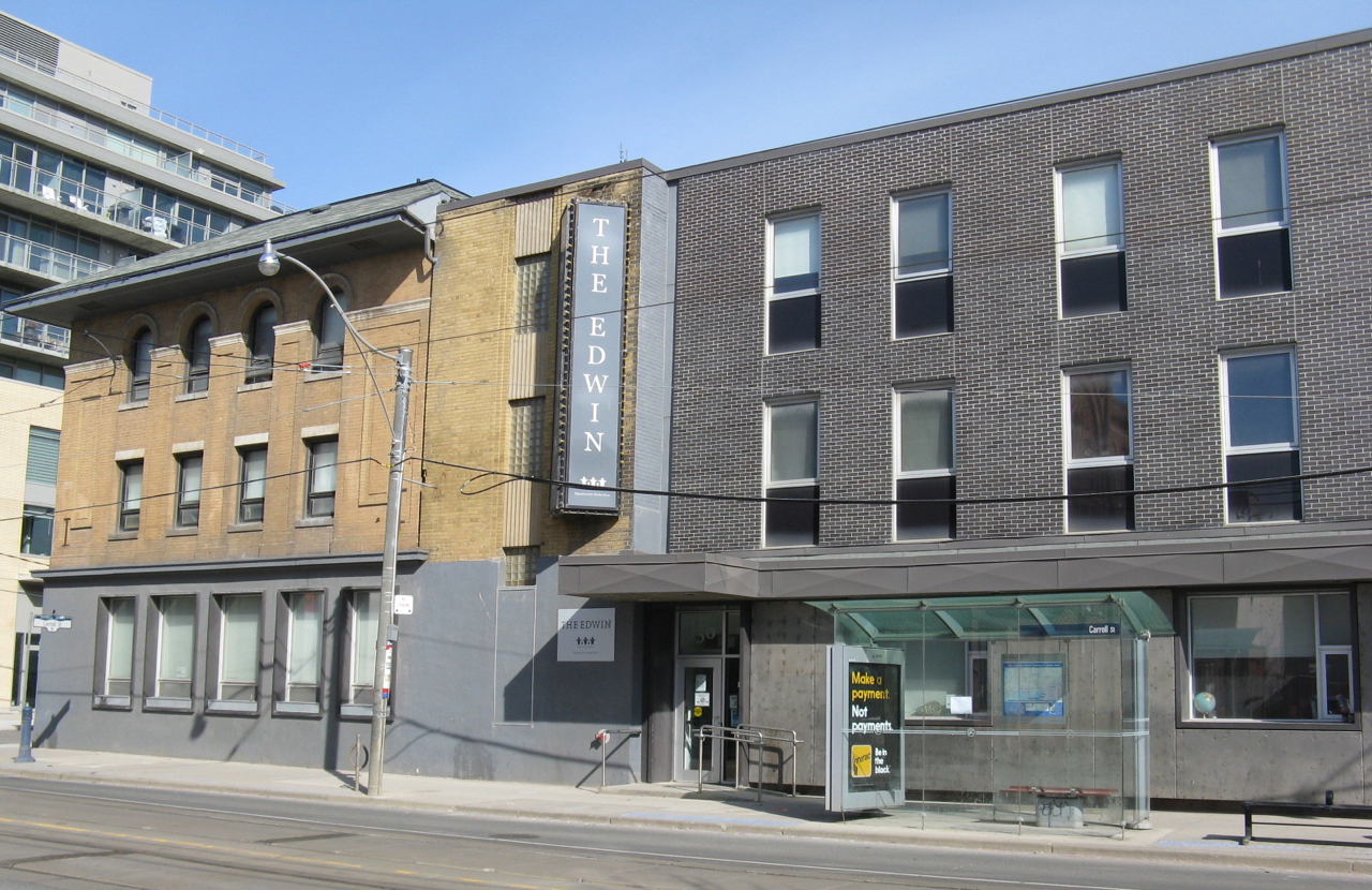 Queen Street East, Toronto. The Edwin. Formerly the New Edwin Hotel, now housing operated by WoodGreen Community Centre.